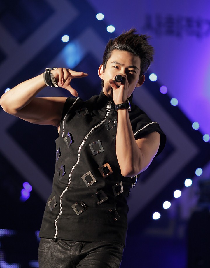 Taecyeon in July 2011